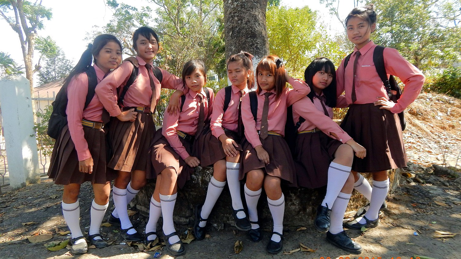 Indian school girls of Nuchhungi English Medium School Hnahthial, Lunglei District, Mizoram